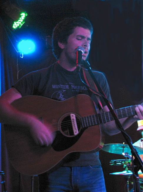 Ryan O’Keefe of River Whyless on stage at The Saint in Asbury Park, NJ on 06192017. Photo by LHCollins.